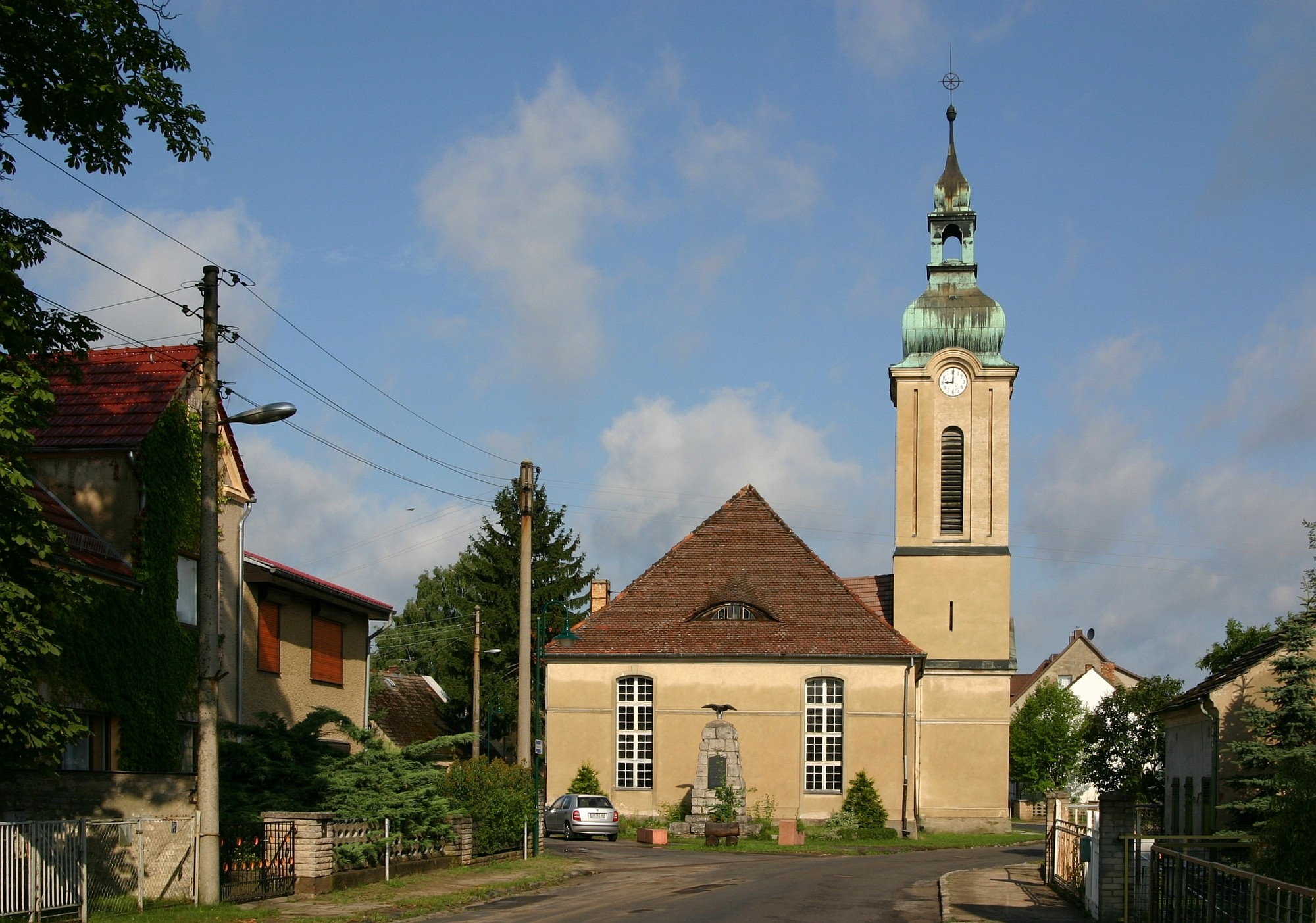 Church of Neu Zittau, Germany